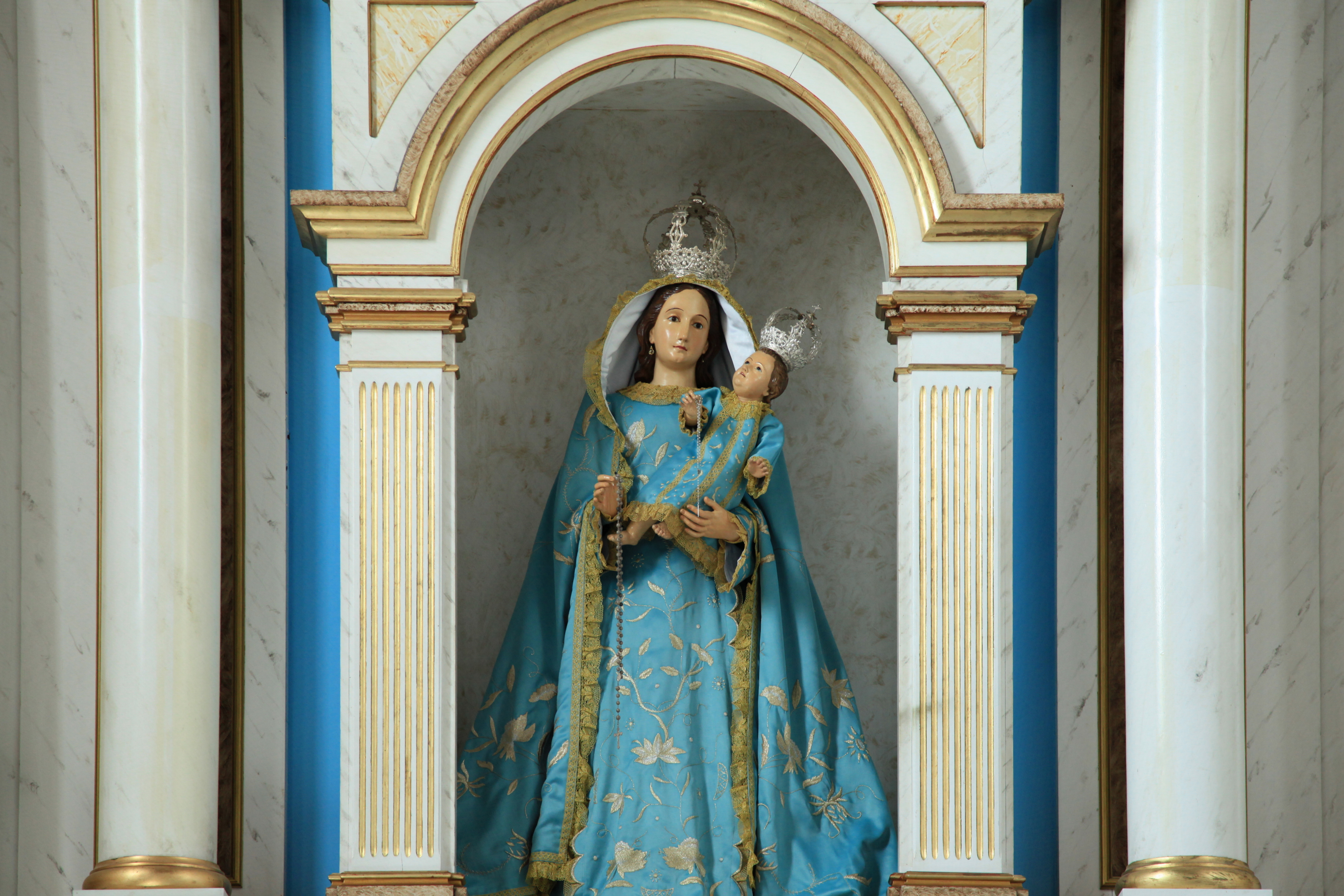 Iglesia de Nuestra Señora del Rosario in Puerto del Rosario, Fuerteventura, Canary Islands